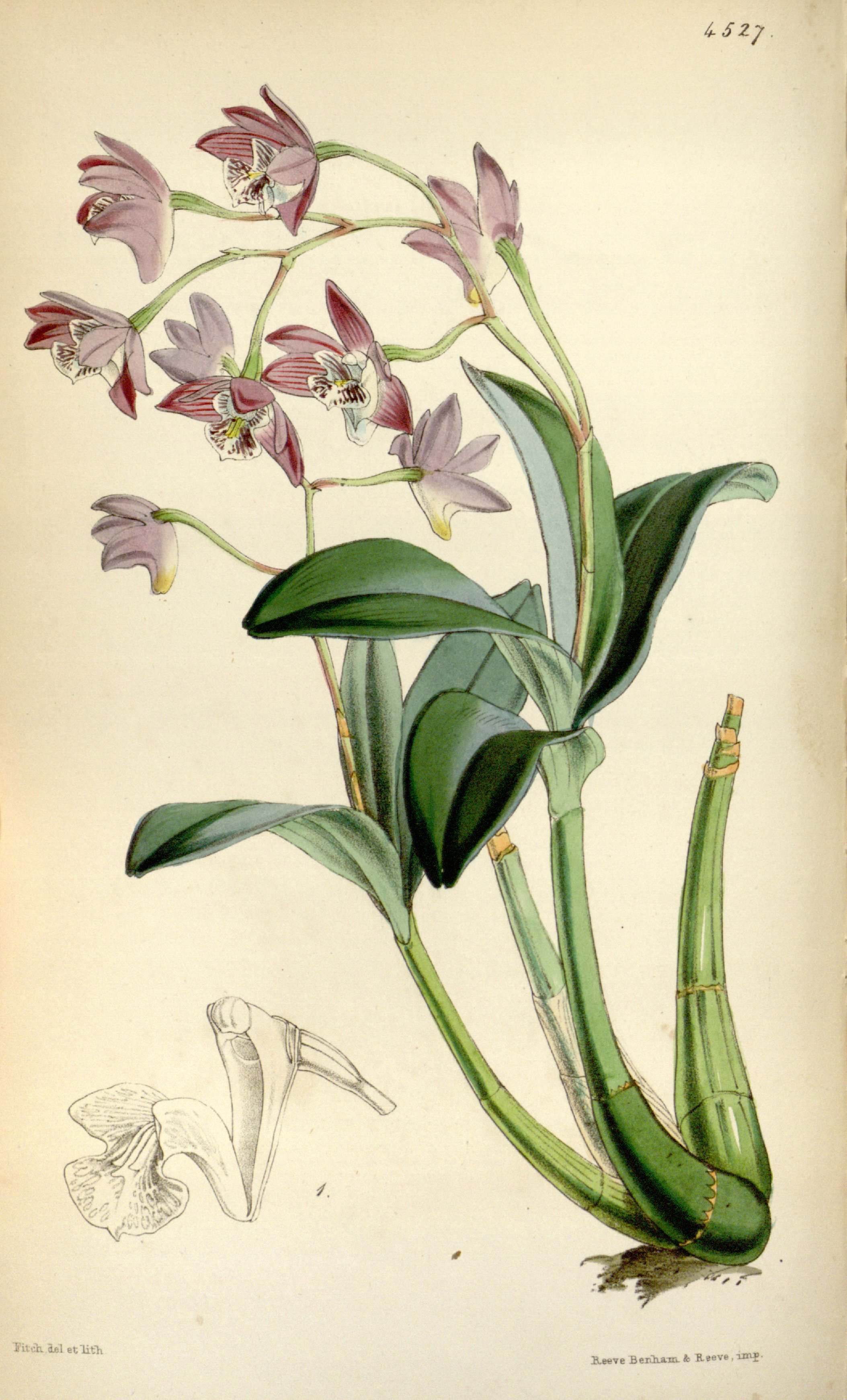 Illustration of Dendrobium kingianum